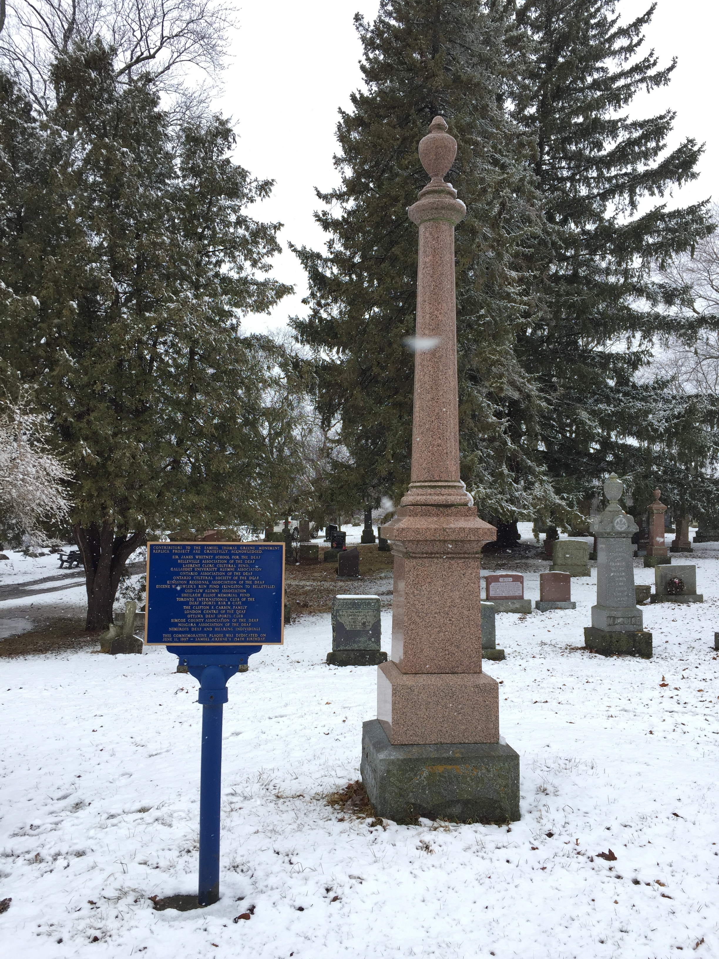 The tombstone of Samuel Thomas Greene in Belleville, Ontario.